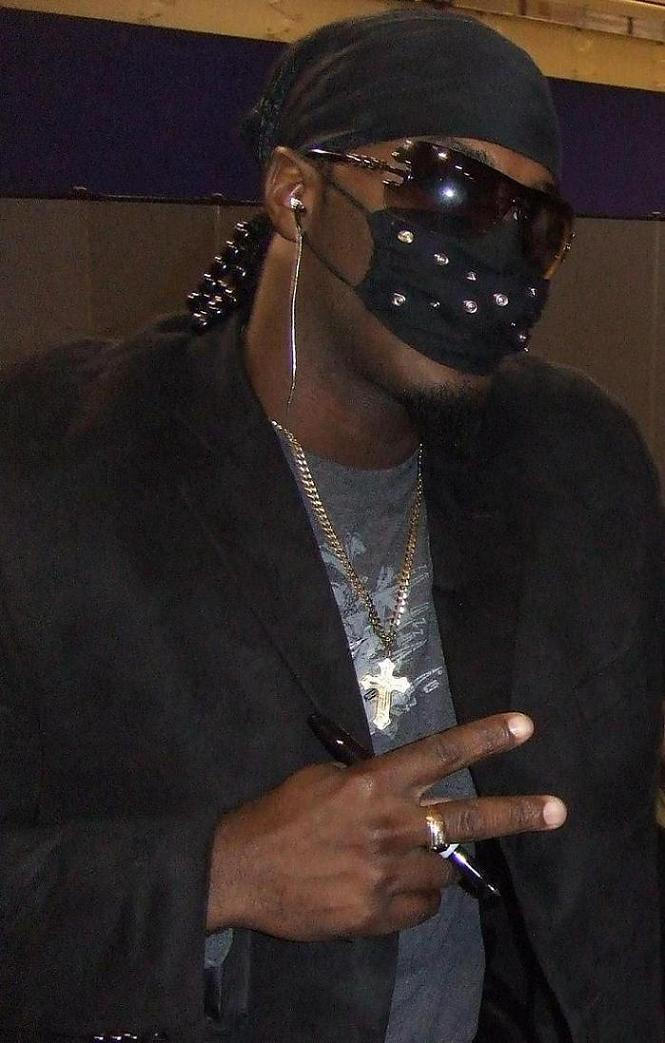 Picture of Elijah Burke, taken by myself on 26th January 2010 at the Bournemouth International Centre in Bournemouth, England, before a TNA Wrestling event. Category:Professional wrestling free used media